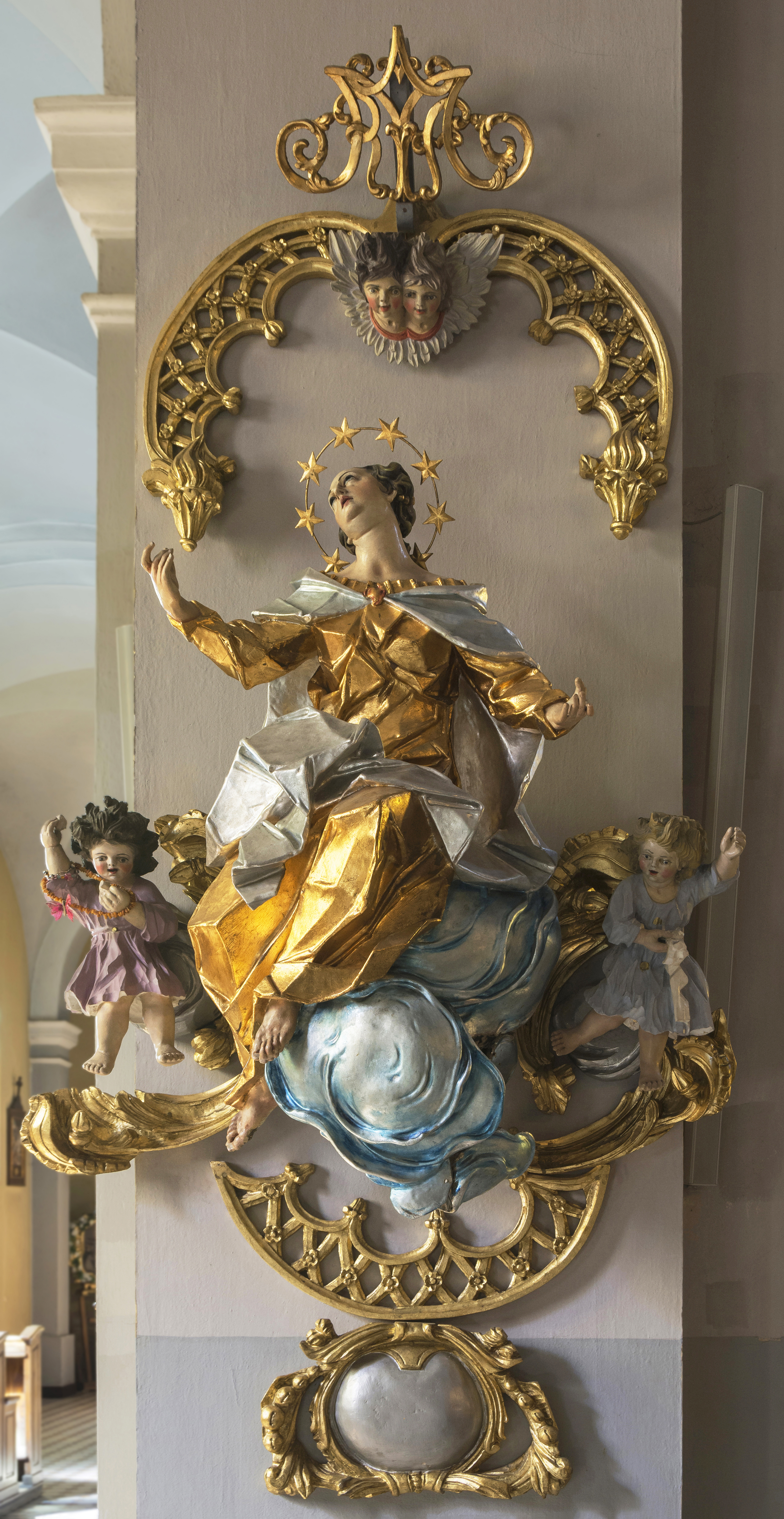 Church of the Assumption in Tarnobrzeg, statue of the Assumption of Mary Ta fotografia przedstawia zabytek wpisany do rejestru zabytków pod numerem ID 632593